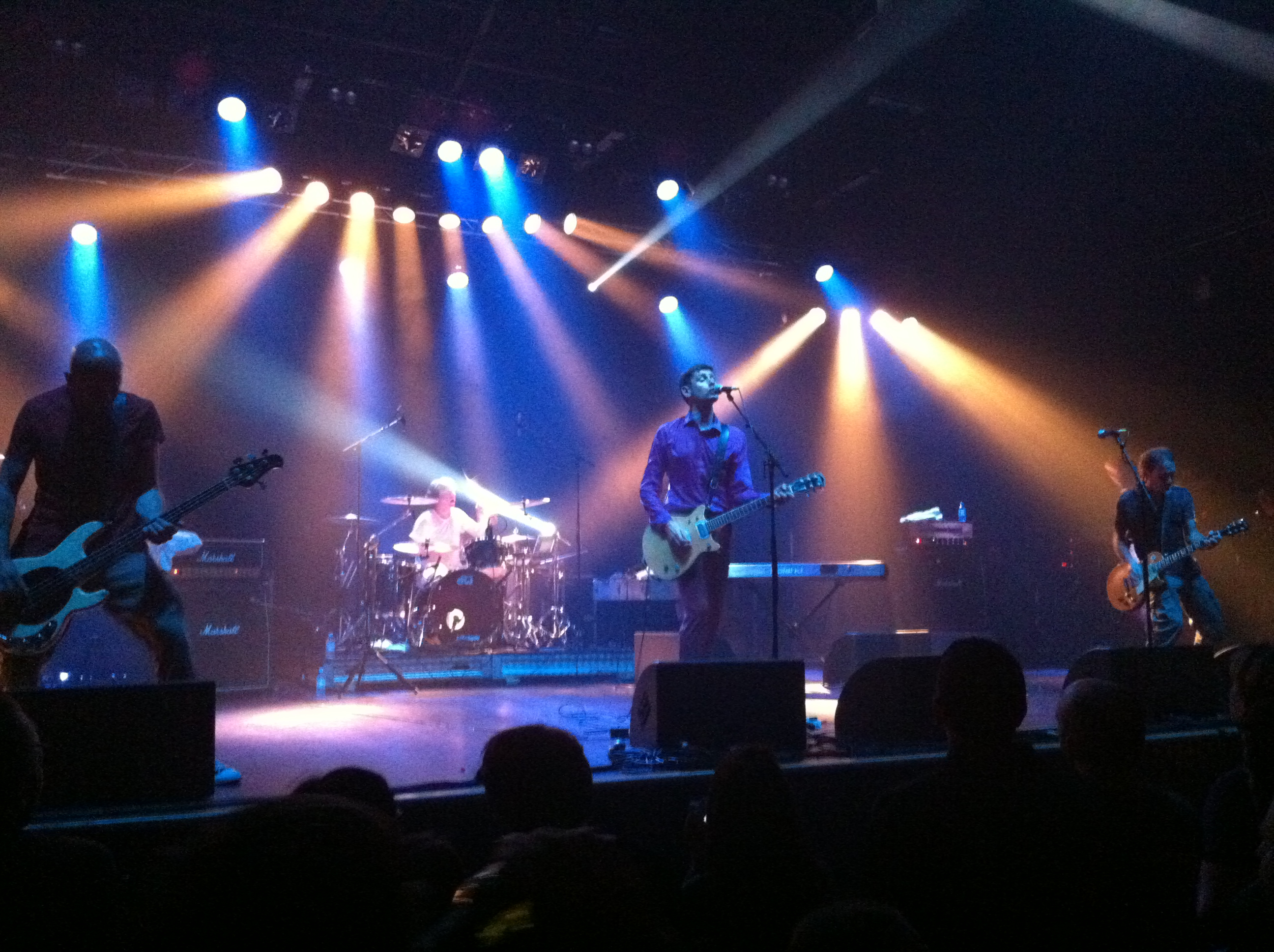 English rock band Jesus Jones playing at the Palace Theatre in Melbourne, Australia on 19 August 2011.